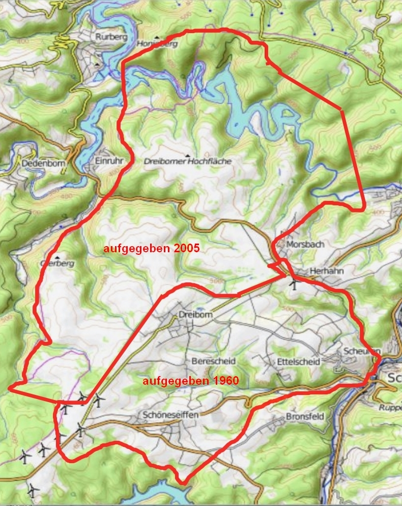 Vogelsang Military Training Area, 1945-2005